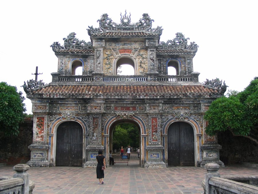 Description: Citadelle of Hue gate. Source: Camille Harang